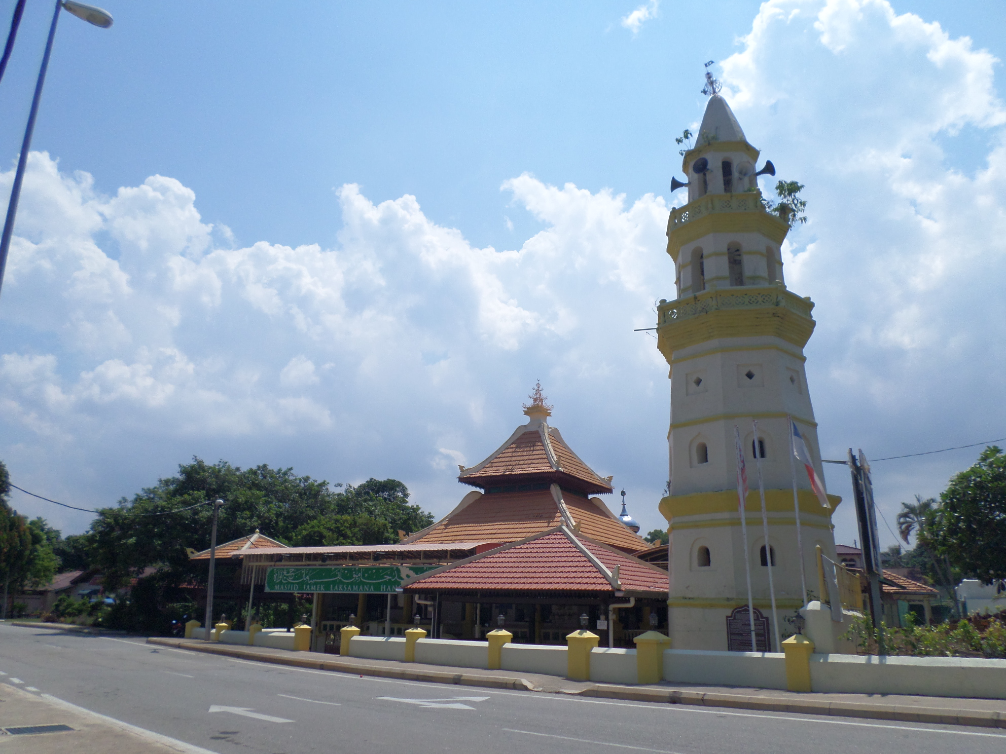 Admiral Hang Tuah Jamek Mosque, Duyong, Melaka, MalaysiaBahasa Melayu: Masjid Jamek Laksamana Hang Tuah, Duyong, Melaka, Malaysia